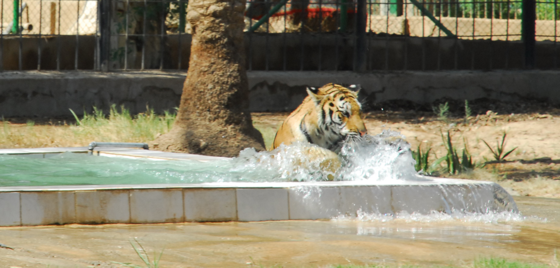 Hope reluctantly takes a dip in her new swimming pool. Hope and Riley were donated to the Baghdad Zoo by the Conservators' Center in North Carolina. The U.S. Embassy footed the bill for the tigers' transport totaling $66,000.